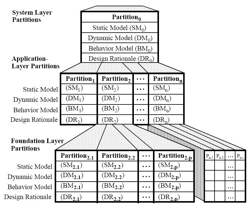 26 Organization of the IDEF4 Project